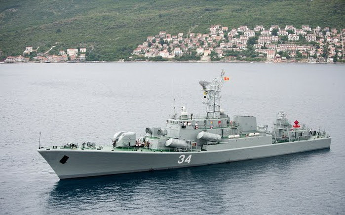 Kotor-class frigate P34